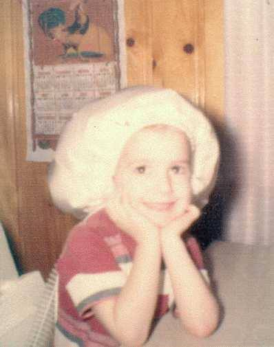 Wendy Snow wearing a bonnet hair dryer, circa early 1970s.